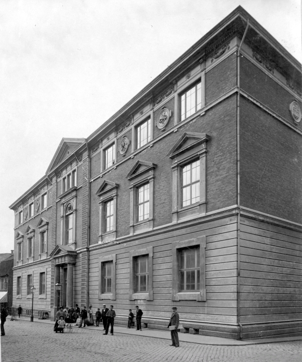 Aalborg Historiske Museum building in 1895, photo by: Gotfred Jensen, from Aalborg Stadsarkiv